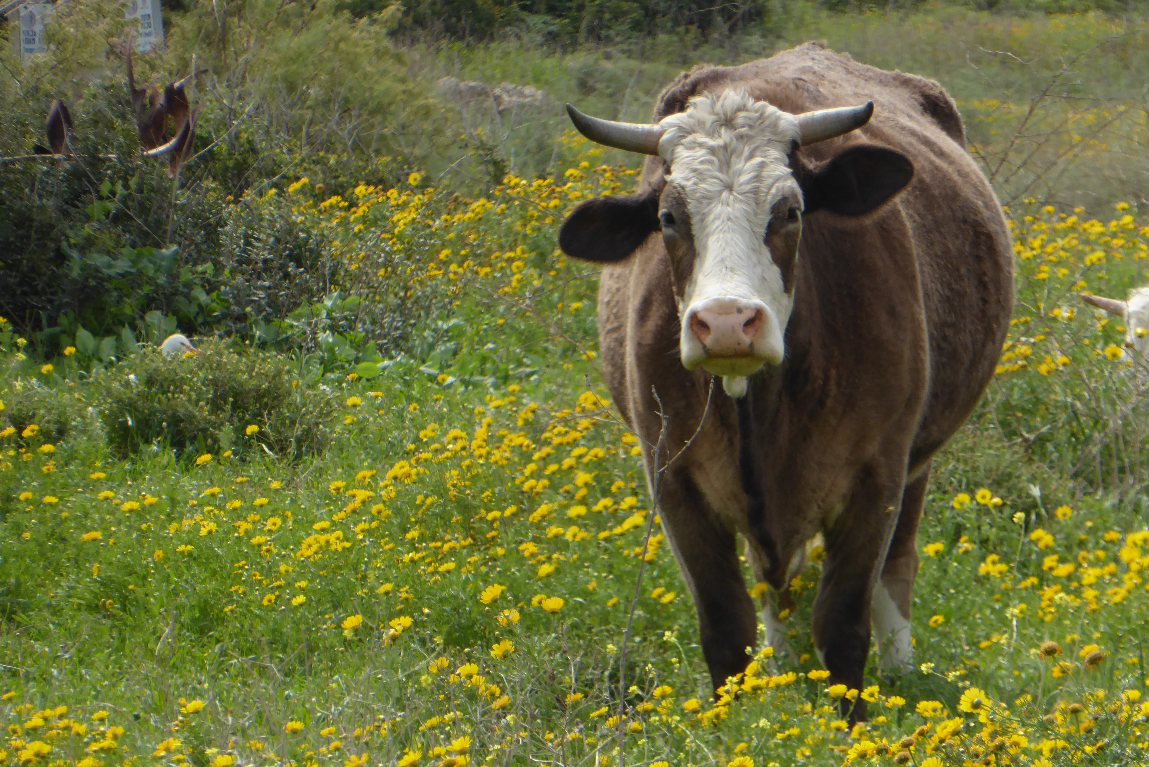 Animals of Israel